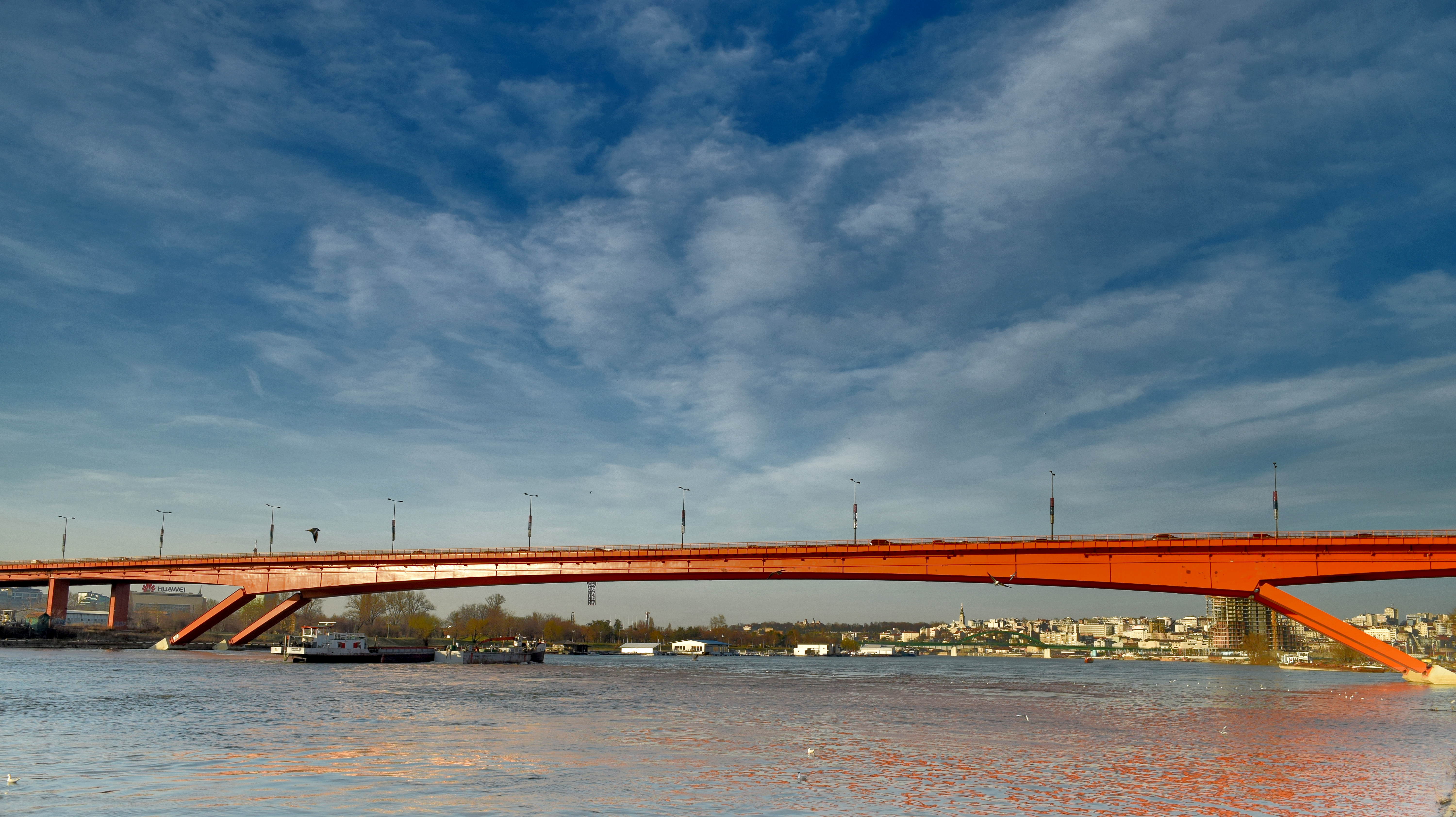 Gazela bridge over river Sava, Belgrade Srpski (latinica): Most Gazela u Beogradu